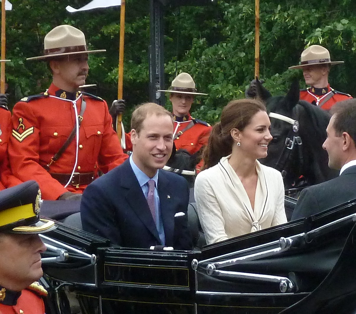 July 4, 2011 Will and Kate visit Charlottetown, PEI, Canada